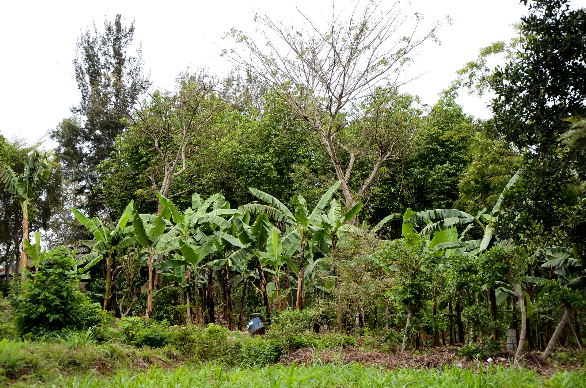 VI Agroforestry in Masaka, Uganda. September 2013.